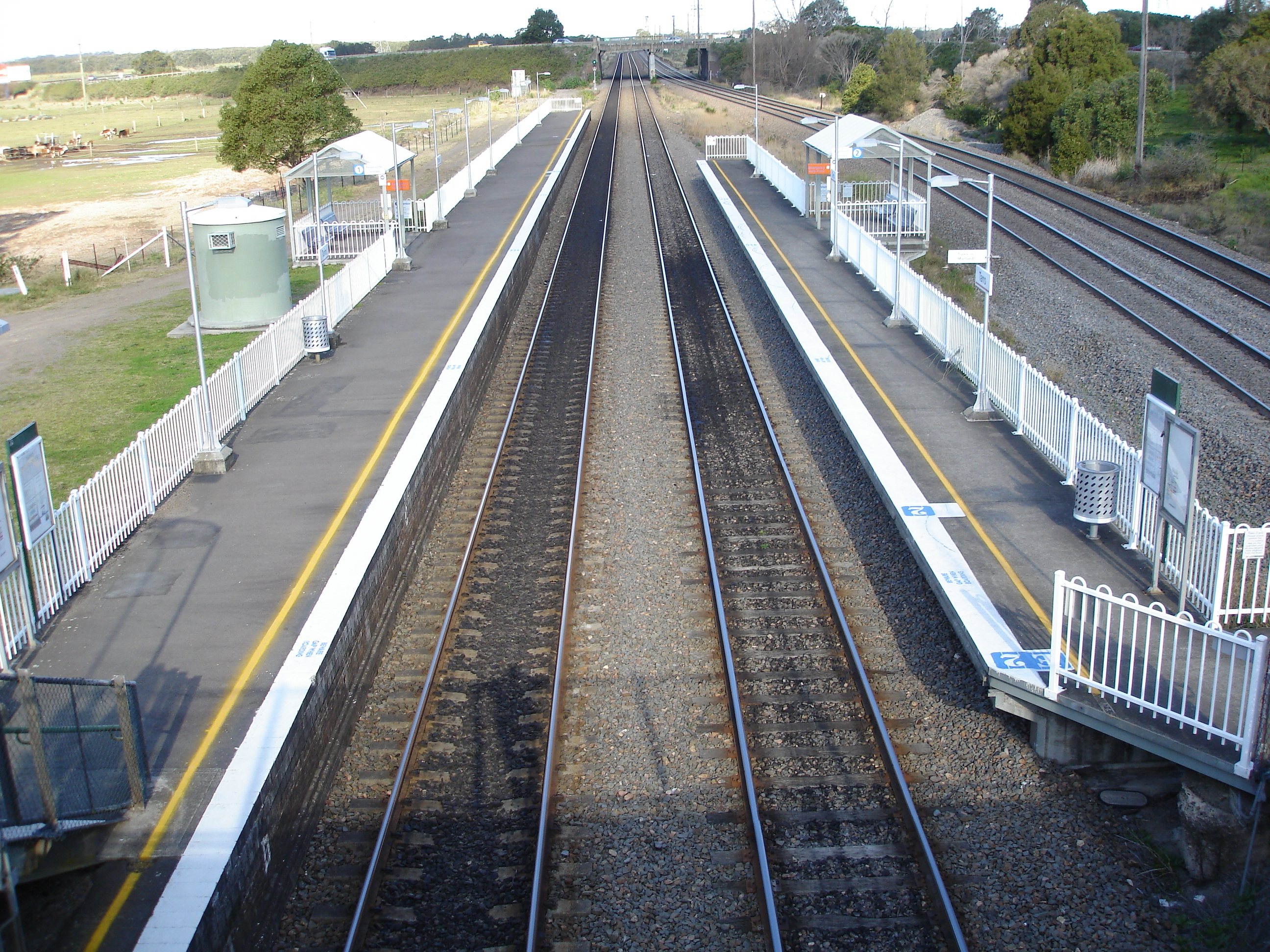 Tarro station taken by MrTwig.